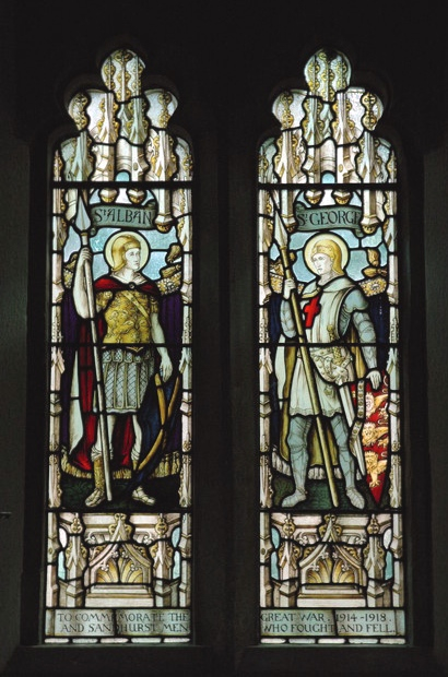 Stained glass window, Sandhurst Church This stained glass window of St Alban and St George is in the south wall of Sandhurst church. The window is a war memorial to the fallen of Sandhurst in the Great War (First World War).